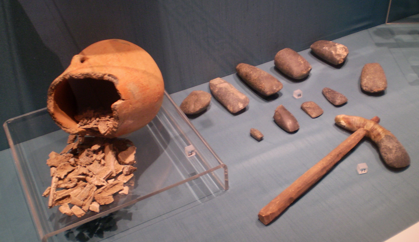 Neolithic tools in Atalanti's (Greece) archeological museum.